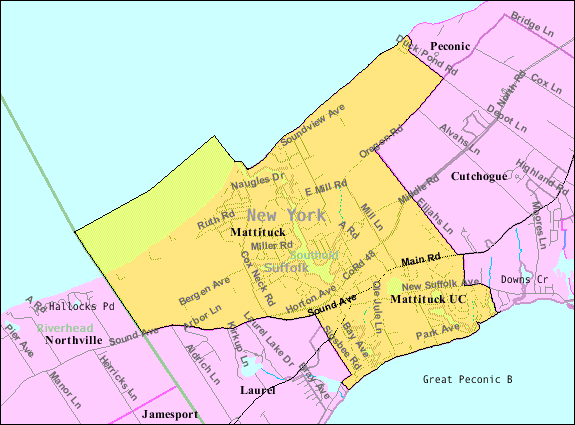 U.S. Census 2000 reference map for Mattituck